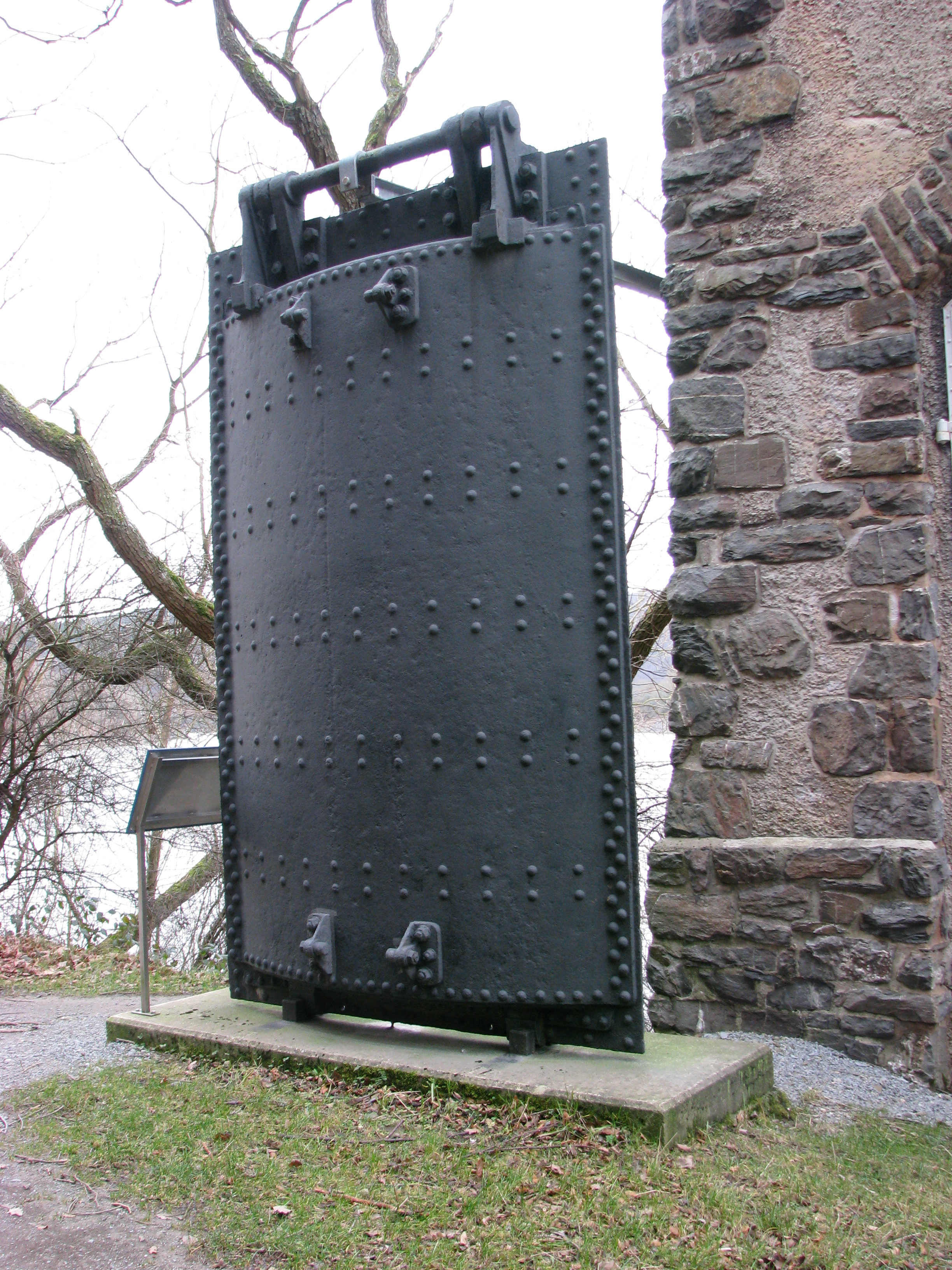 Gate valve from the southern shaft of the Kermeter adit at the Urft Dam. It was installed there in 1905 and replaced in August 2002 by a new gate valve. Weight: 7000 kg